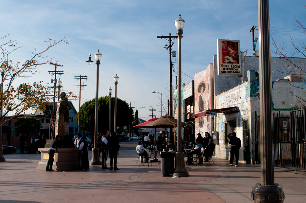 Boyle Heights, where the Mexican influence of East Los Angeles continues to predominate, though there is a bit of Japanese presence from Little Tokyo across the Los Angeles River. Two underground Metro Gold Line stations, Soto and Mariachi Plaza, serve the neighborhood. Here at Mariachi Plaza, it's all Mexican. In fact, there are several mariachi bands from Michoacan, Mexico, who are available for hire, as seen here. The statue commemorates Lucha Reyes (1906-1944), a Mexican singer who was best known for singing the Ranchera Song.